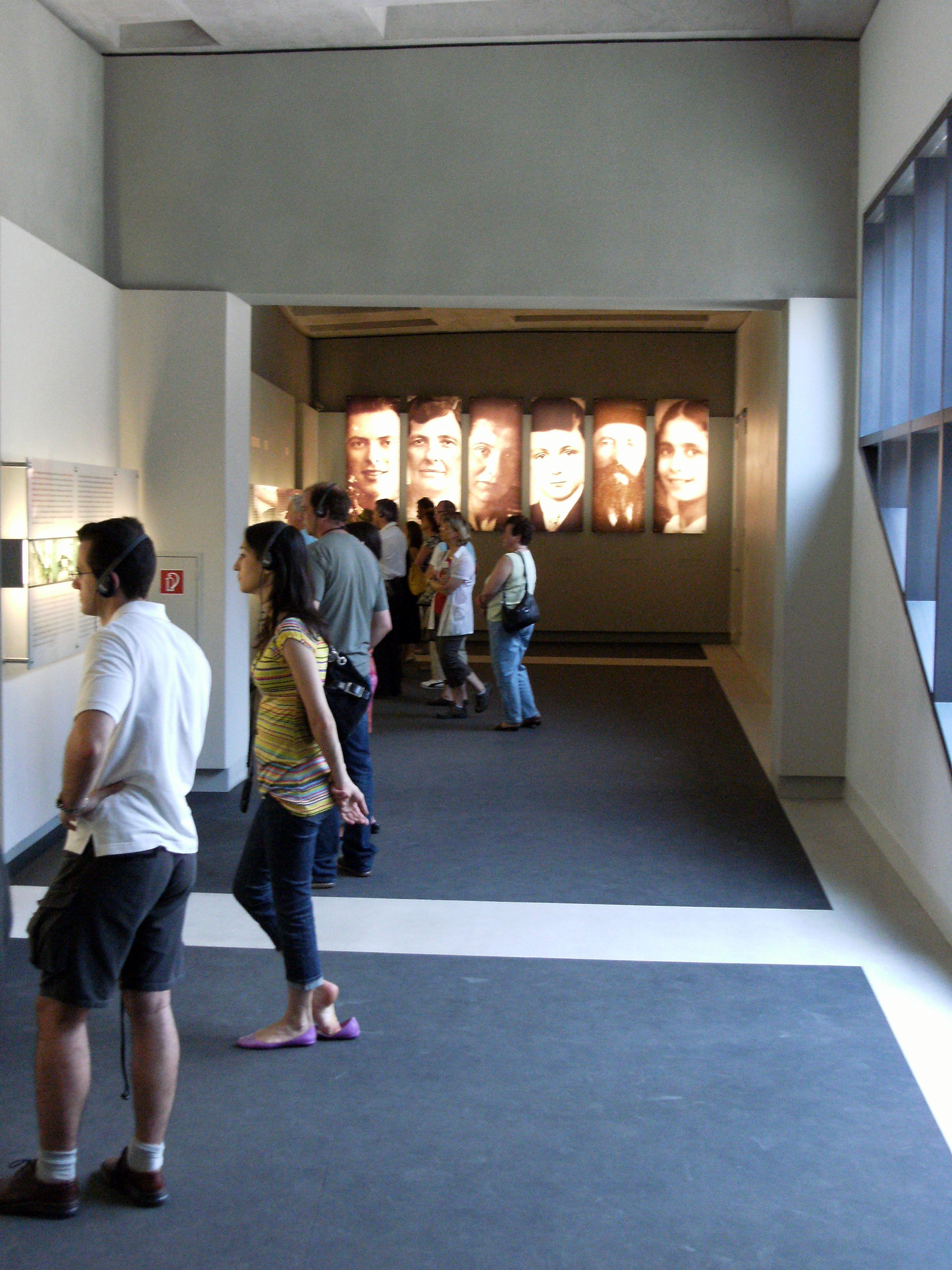 Berlin in june 2008.